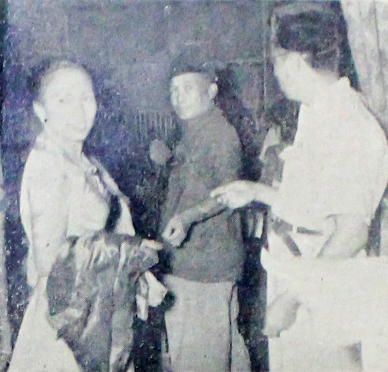 Ade Ticoalu and Rd Ariffien at a screening of Meratjun Sukma at Capitol Theatre in Jakarta